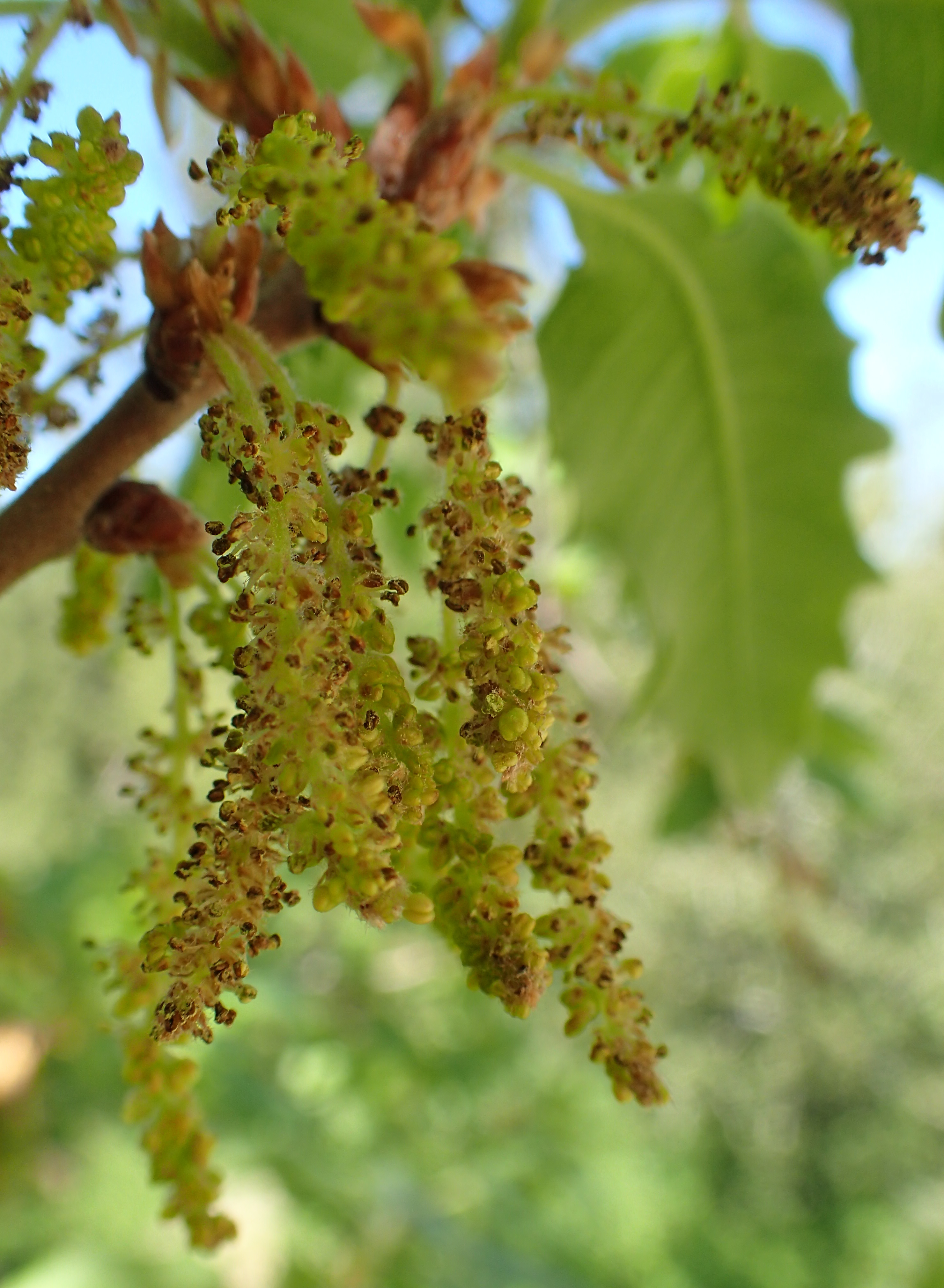 Quercus infectoria ssp. veneris in Akamas Botanical Garden, Cyprus